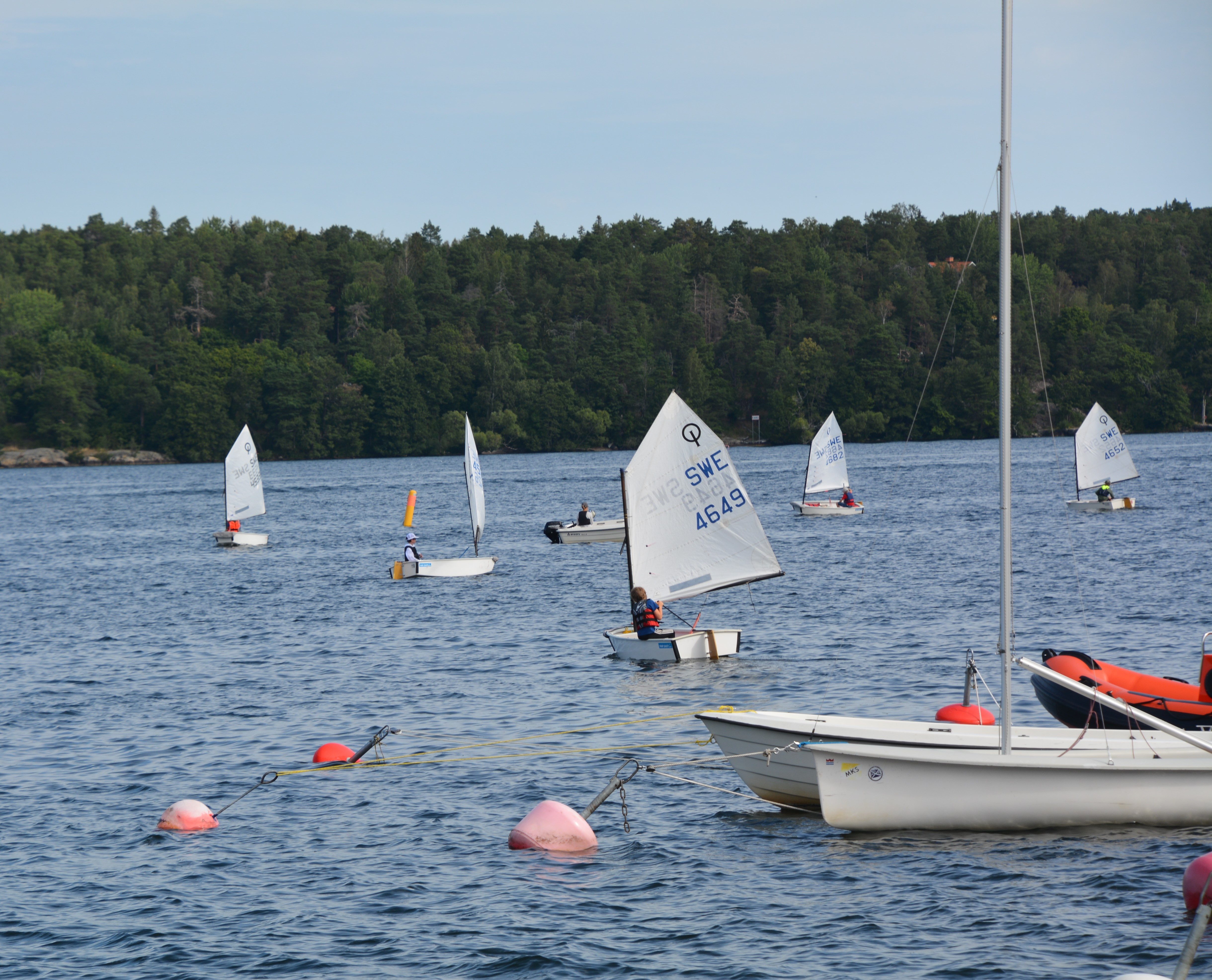 Optimist sailing dinghies at a sailing school at Lake Mälaren outside the premises of Mälarhöjdens Kanotsällskap, Stockholm, Sweden